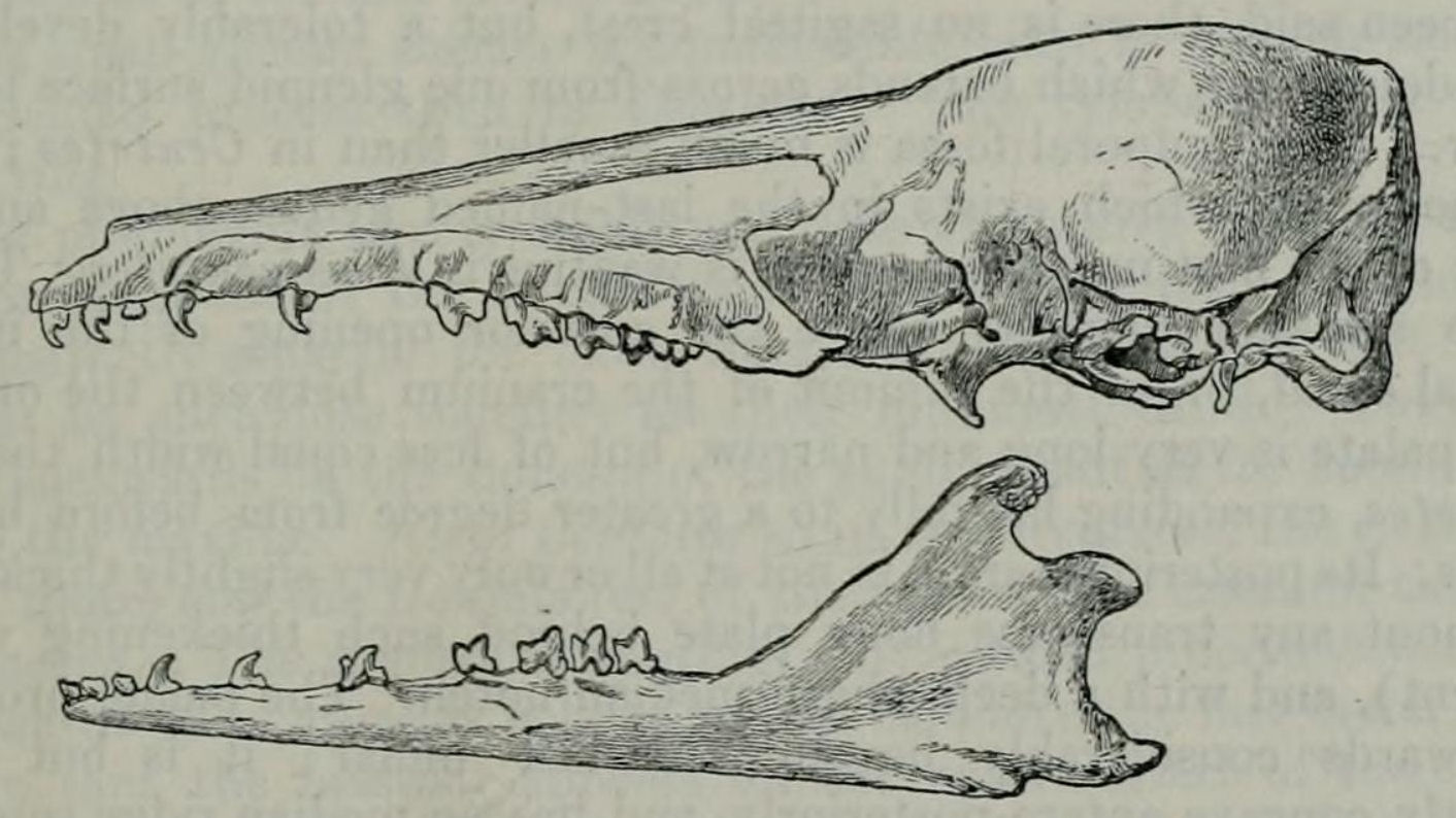 Skull of Hemicentetes semispinosus, printed in: St. George Mivart: On Hemicentetes, a new Genus of Insectivora, with some additional remarks on the osteology of that order. Proceedings of the Zoological Society of London, 1871, pp. 58–79, fig. 1 ([1])